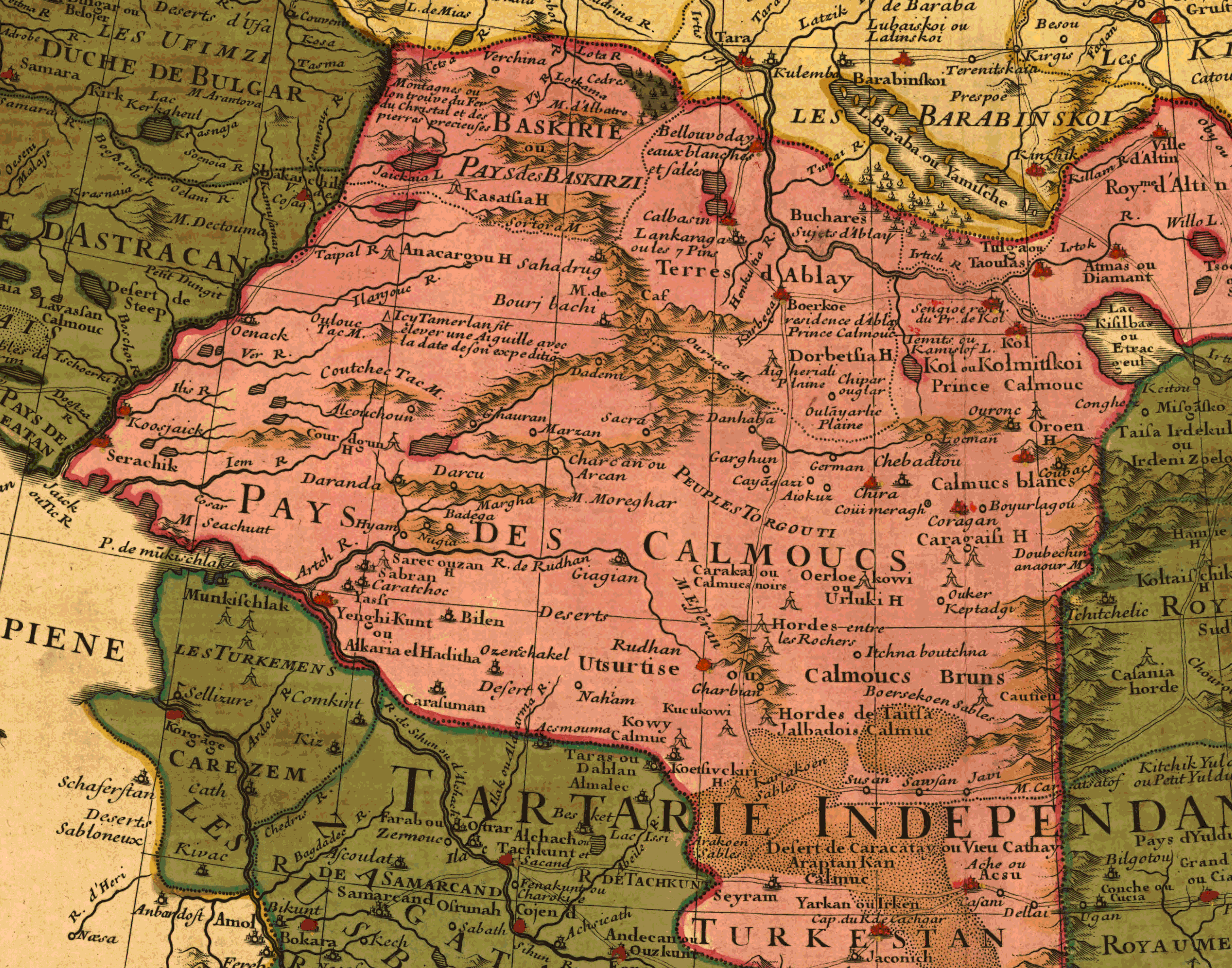 Map fragment. The map itself is from Map Collection of the Library of Congress.